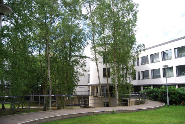 The Queen's Building at the University of East Anglia, Norwich